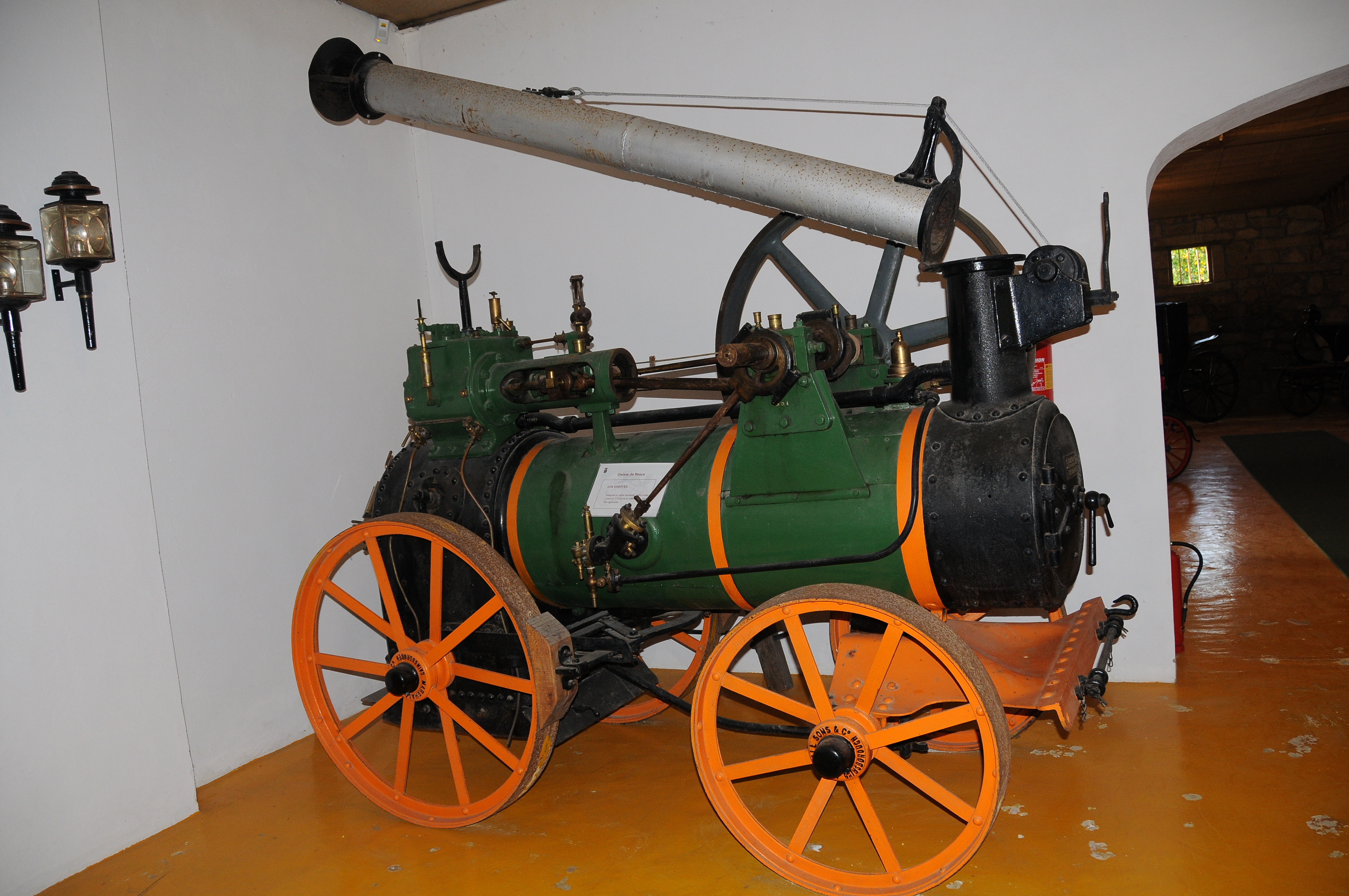 Carriage Museum in Geraz do Lima, Viana do Castelo Portugal.